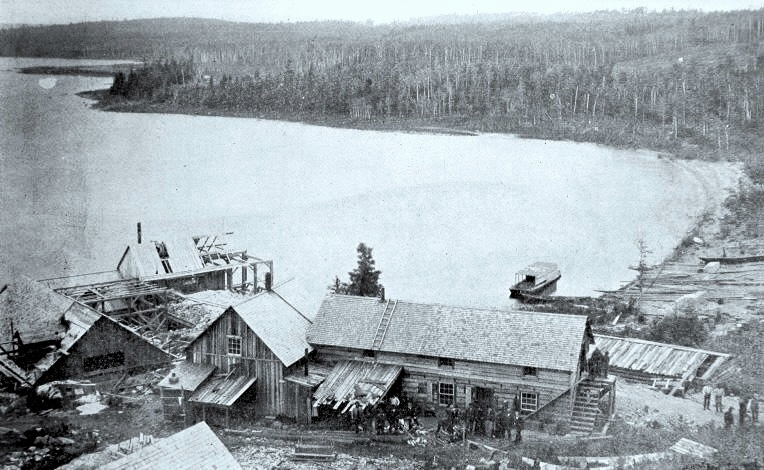 Print, Wright's Silver Mine, Lake Temiscaming, ON, about 1900, Ink on paper - Halftone - 10.8 x 17.1 cm. Lake Timiskaming (French: Lac Témiscamingue) is a large freshwater lake on the provincial border between Ontario and Quebec, Canada.